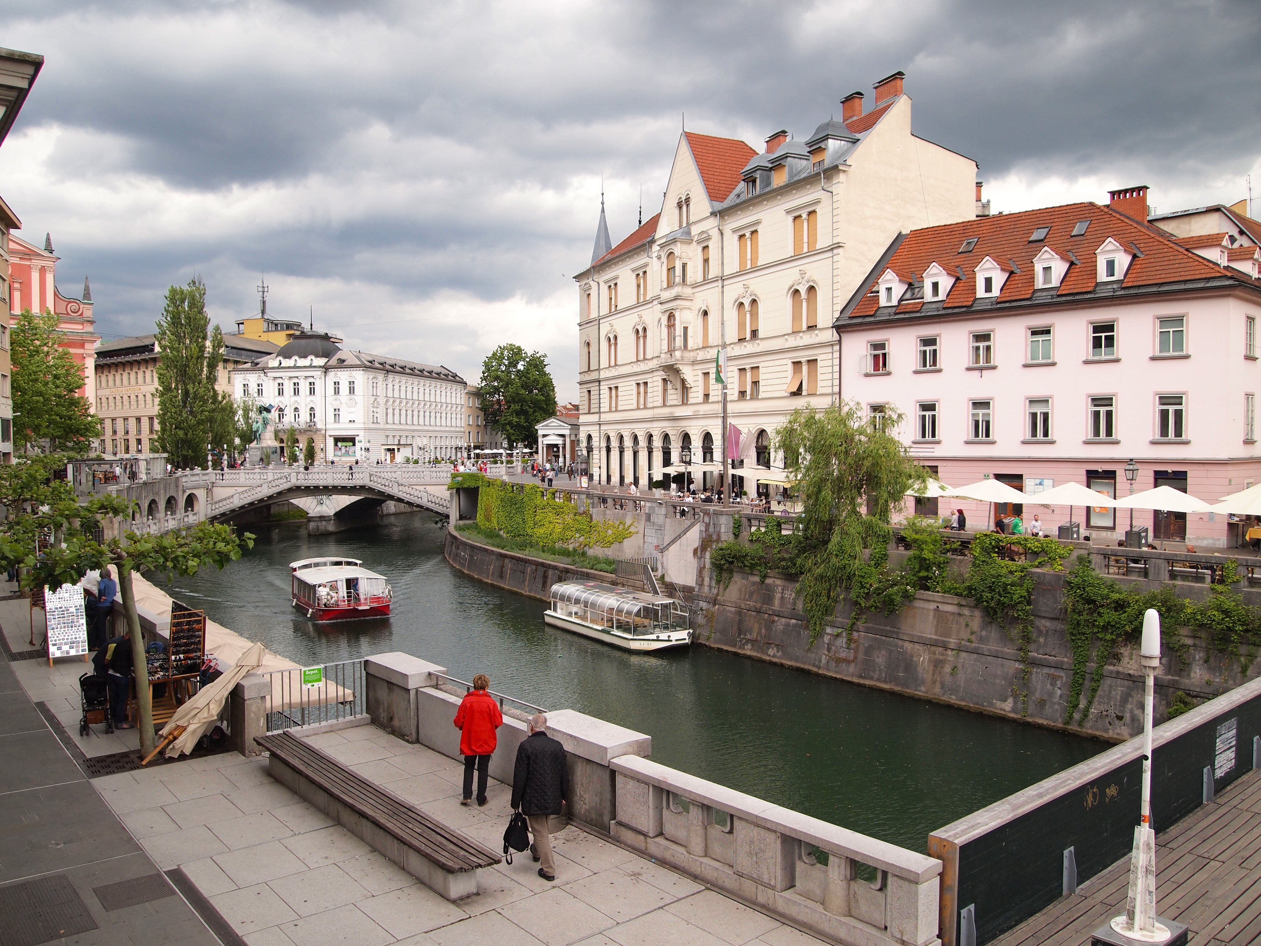 Ljubljanica river in Ljubljana. This photograph was taken with a Olympus E-PL1.